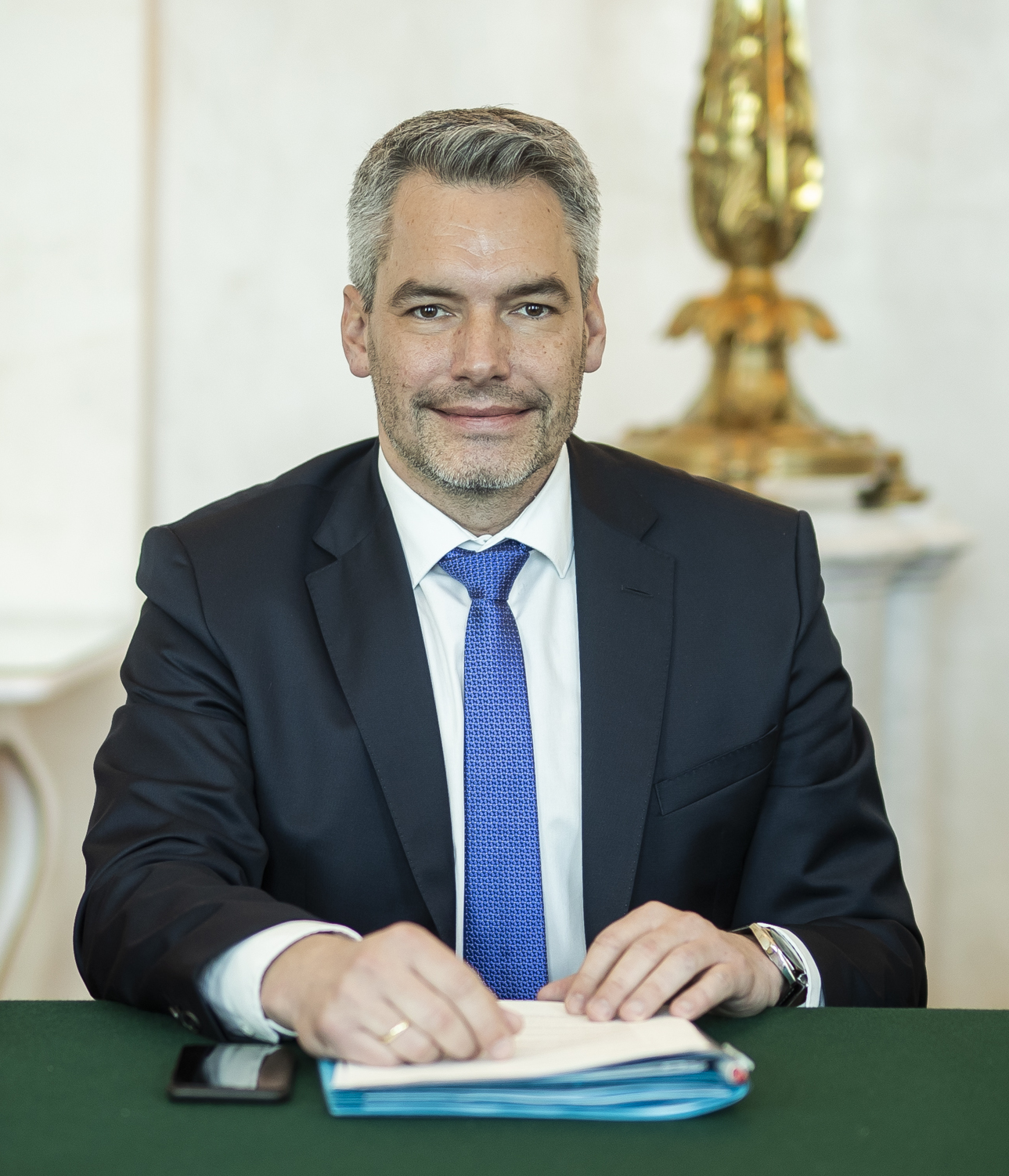 Fotocredit: BKA